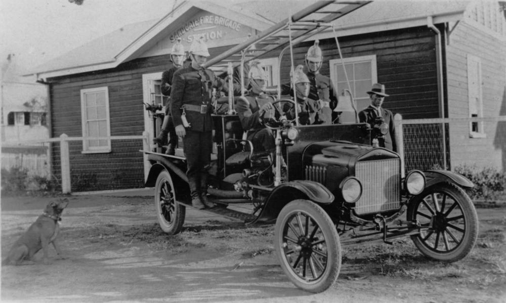 Photo of the Sandgate Fire Brigade, Brisbane 1923, taken outside the Sandgate Fire-Brigade Station. Fire Chief A. Lupton is in the front seat and Fireman L. Granville is driving.